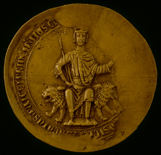 Seal of Charles I of Anjou